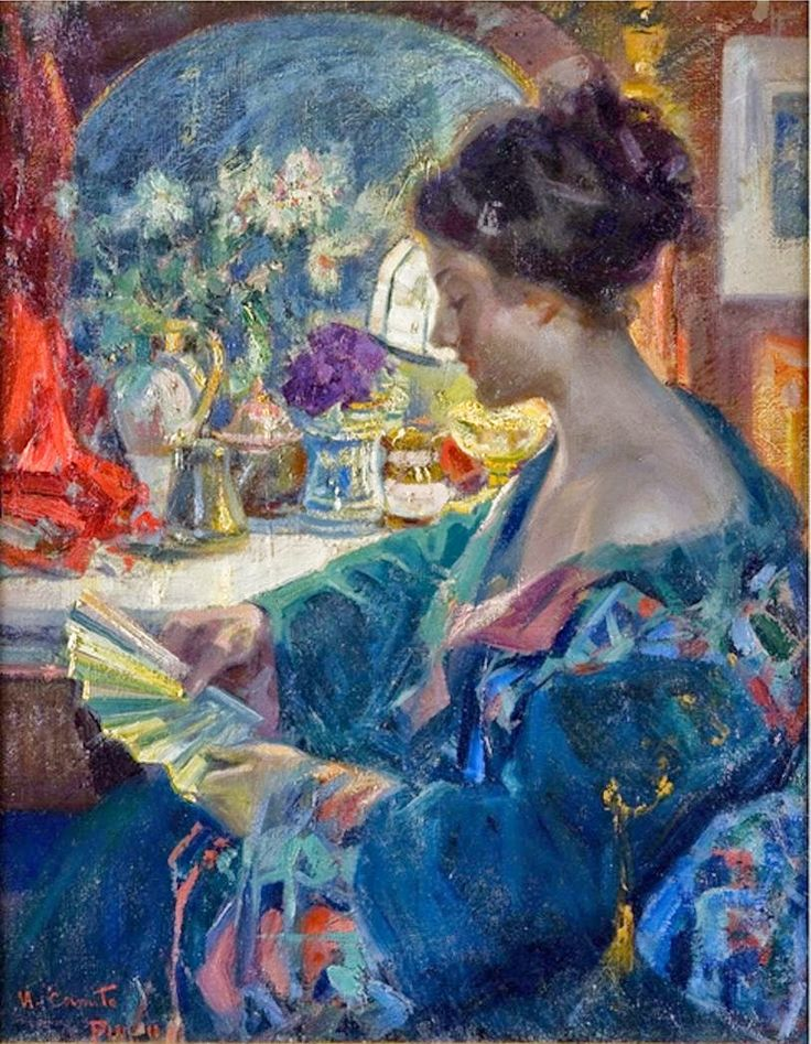 Silk kimono